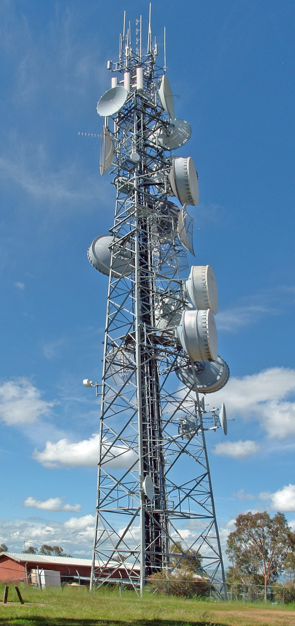 Willans Hill Communications Tower. Wagga Wagga, New South Wales